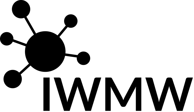 Logo for the annual IWMW (Institutional Web Management Workshop) event, held in the UK since 1997. This logo was first used for the IWMW 2016 event